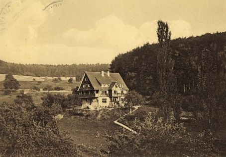 Old postcard: Odenwaldschule - Goethehaus - in the year of the school's foundation 1910. Collection Markus Wolter.